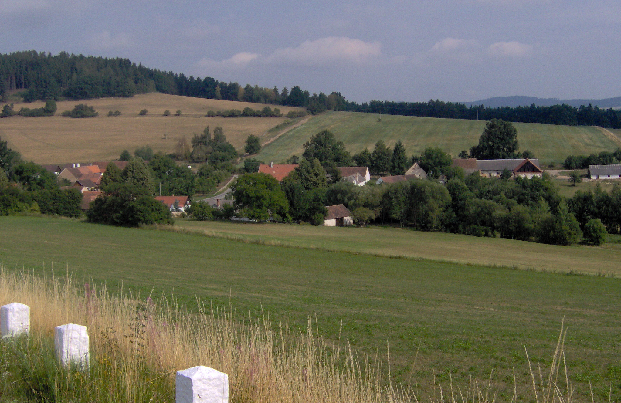 A wiev of Útěšov, part of Bavorov, Strakonice District, Czech republic